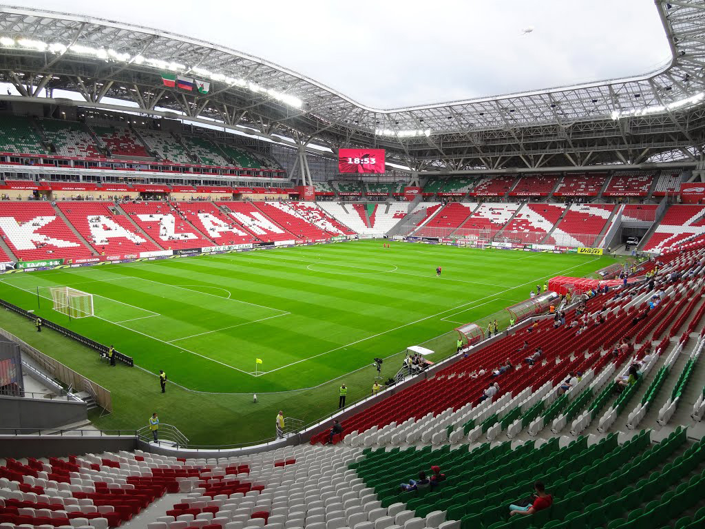 Inside Kazan Arena. Kazan city, Tatarstan republic. Russia.